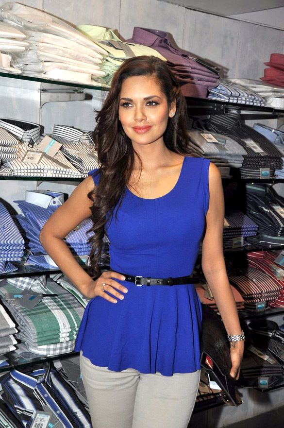 Esha Gupta promotes 'Jannat 2'